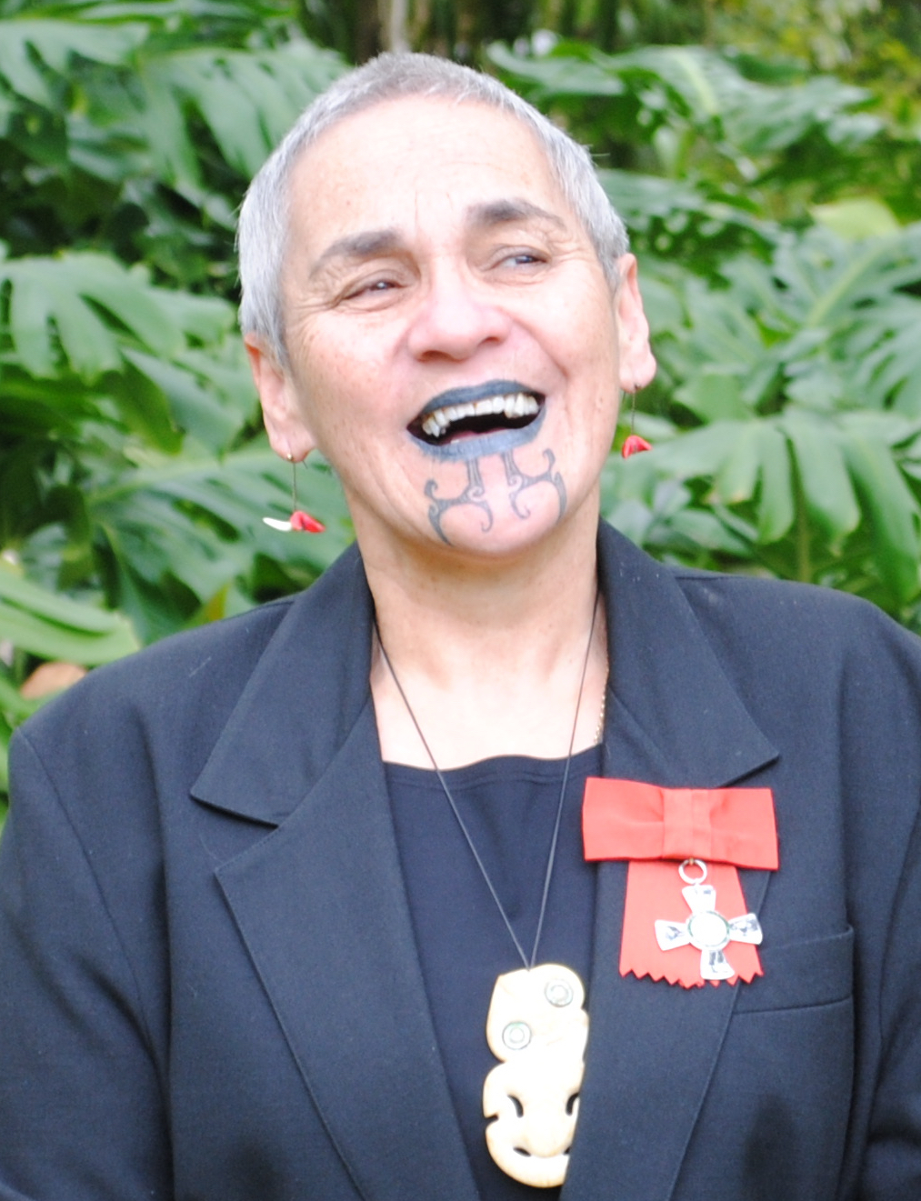 Ngahuia Te Awekotuku, after her investiture as MNZM, for services to Māori culture, on 14 April 2010